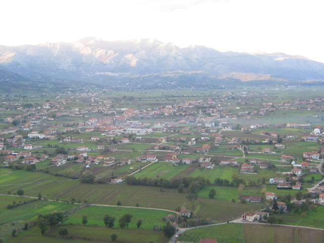 A view of Prato Perillo (hamlet of Teggiano) and the Diano Valley, from the castle of Teggiano